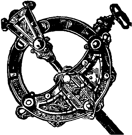 Head of the Tara Brooch